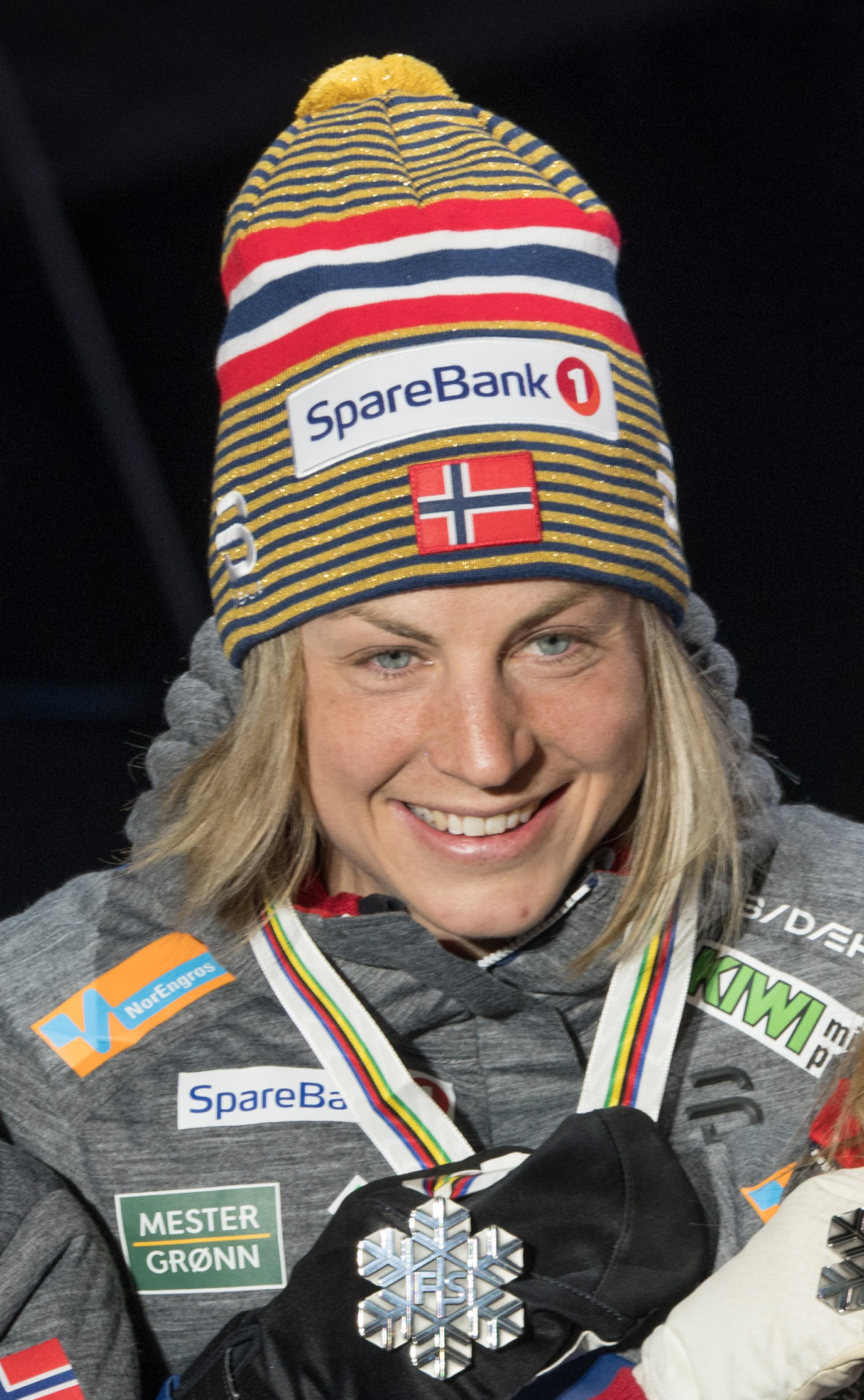 FIS Nordic Wolrd Ski Championships Seefeld 2019 - Medal Ceremony at the Medal Plaza. Picture shows Astrid Uhrenholdt Jacobsen (NOR).